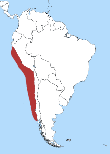 The Distribution of the Humboldt Penguin